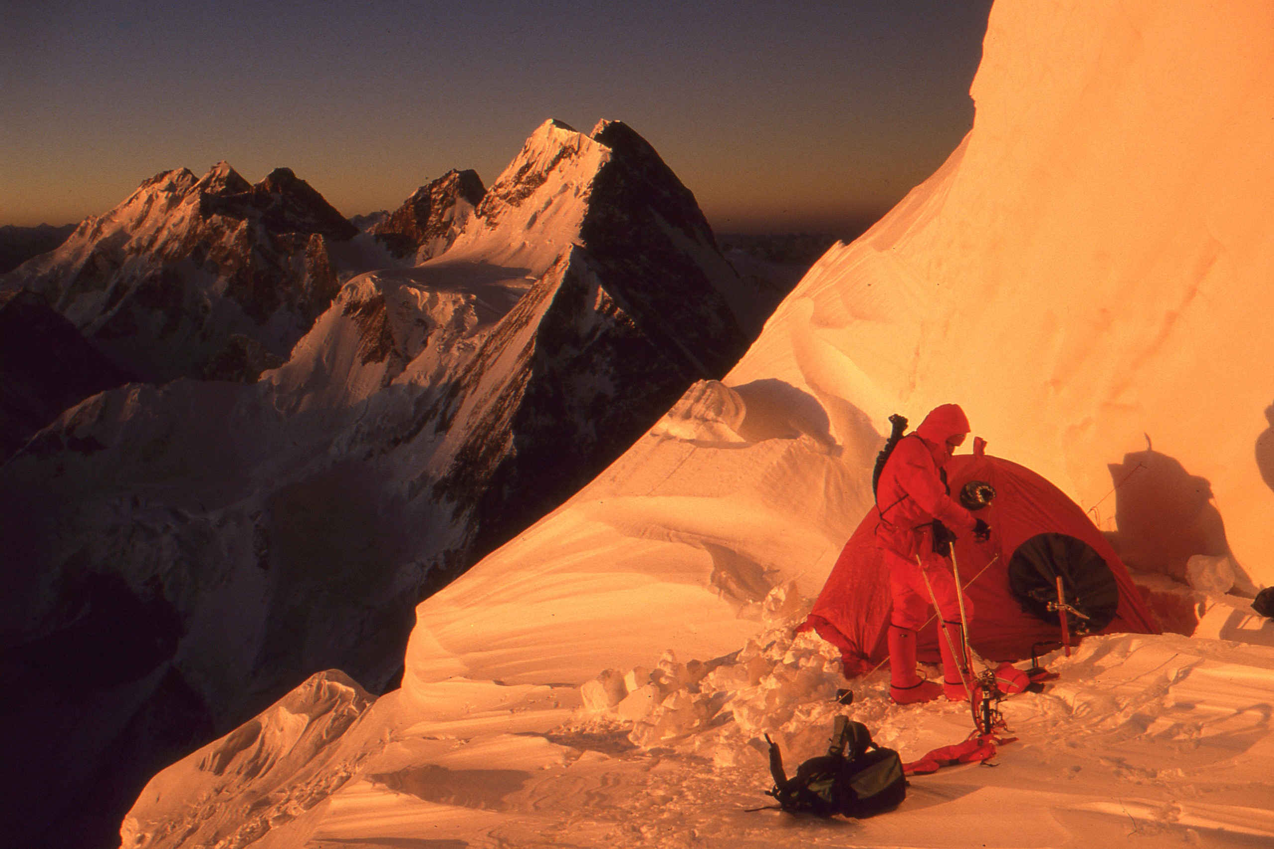 K2 at appr. 7'700 meter altitude. Sunrise and preparing climbing to the top